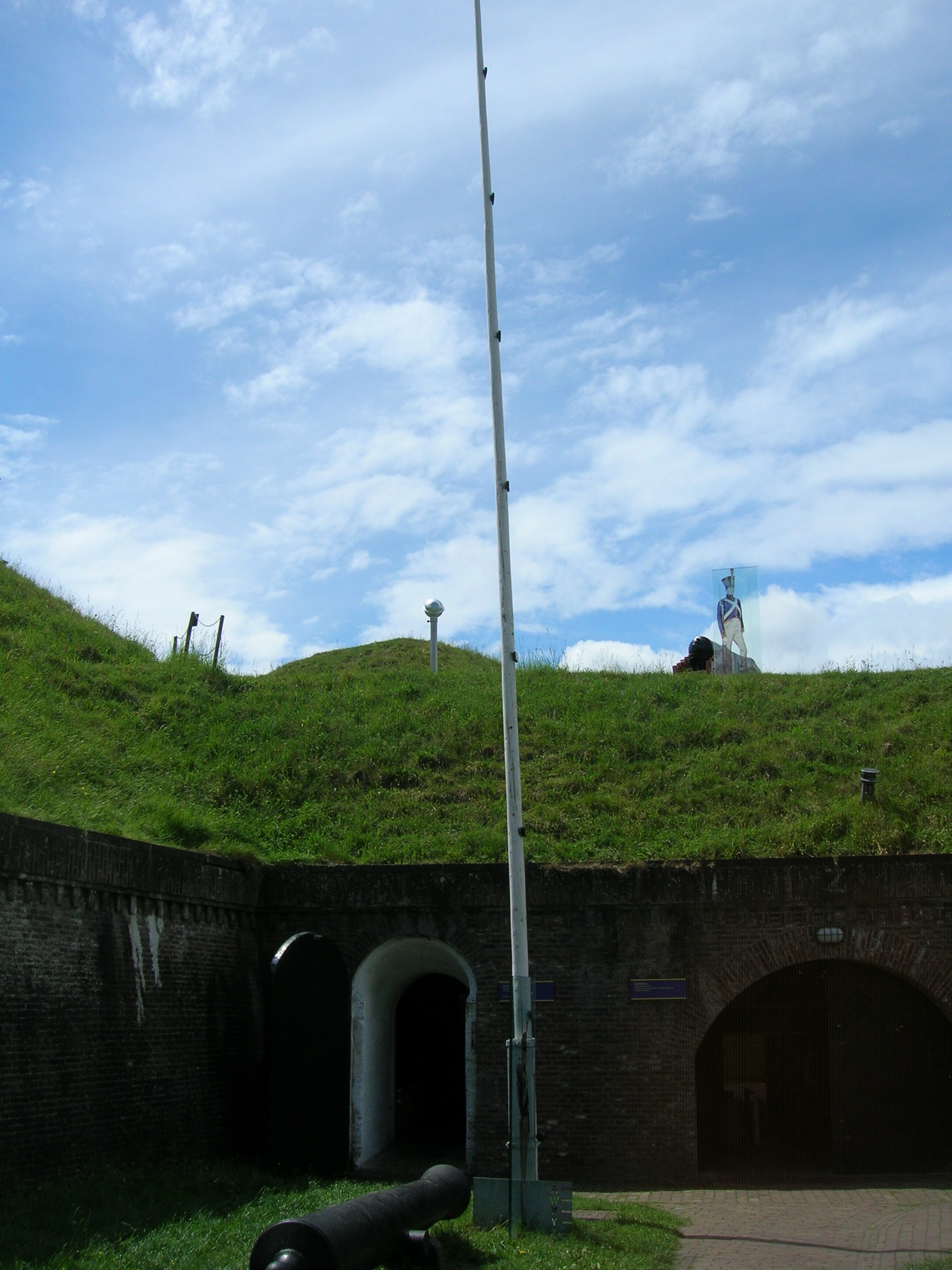 Vestingmuseum powder tester